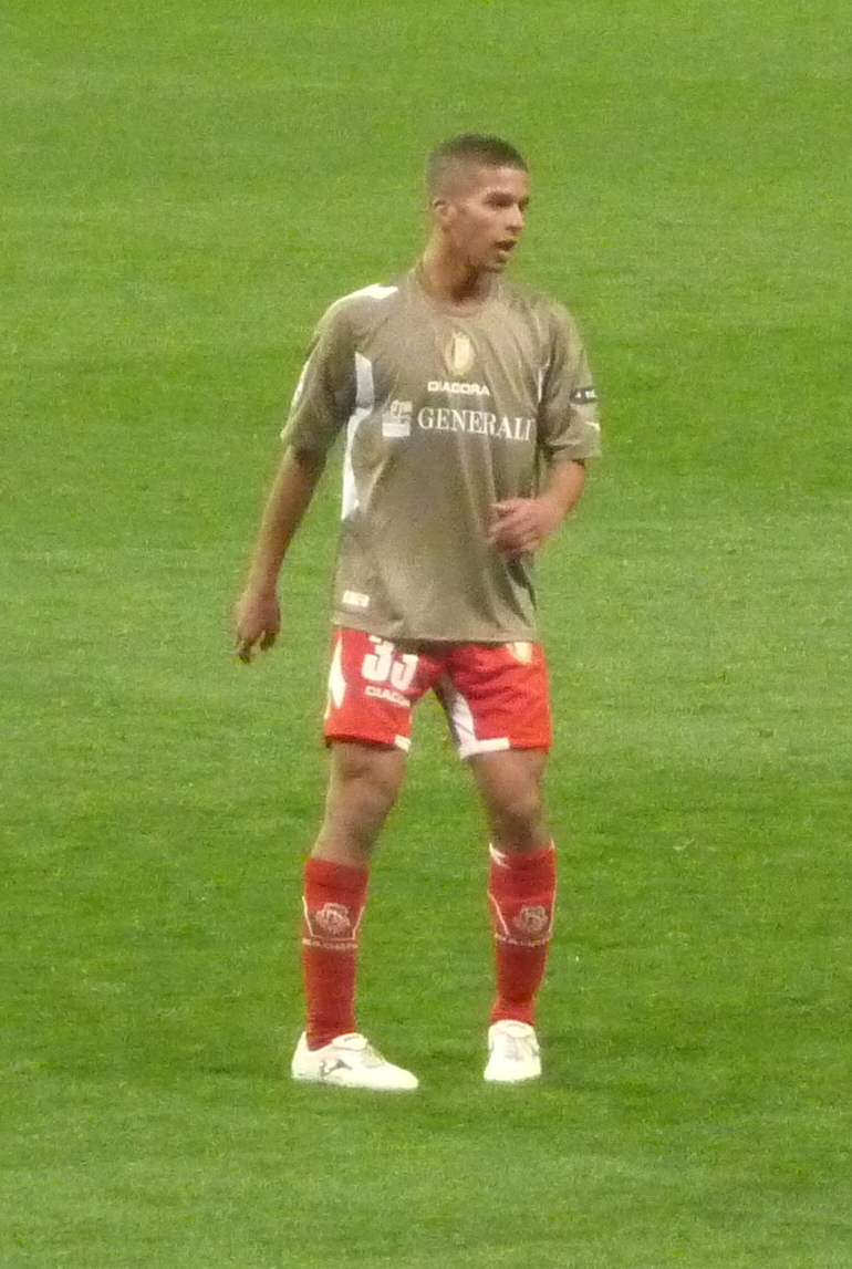 Cesc with a quiet game, by his standards, although this wasn't a classic game